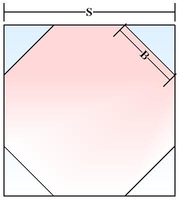 A simple octagon inset in a square (written in Mathematica) to help illustrate a derivation of the area of an octagon